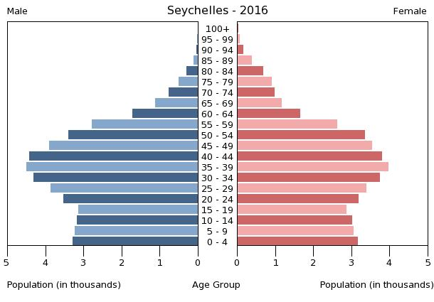 The population pyramid of Seychelles illustrates the age and sex structure of population and may provide insights about political and social stability, as well as economic development. The population is distributed along the horizontal axis, with males shown on the left and females on the right. The male and female populations are broken down into 5-year age groups represented as horizontal bars along the vertical axis, with the youngest age groups at the bottom and the oldest at the top. The shape of the population pyramid gradually evolves over time based on fertility, mortality, and international migration trends.